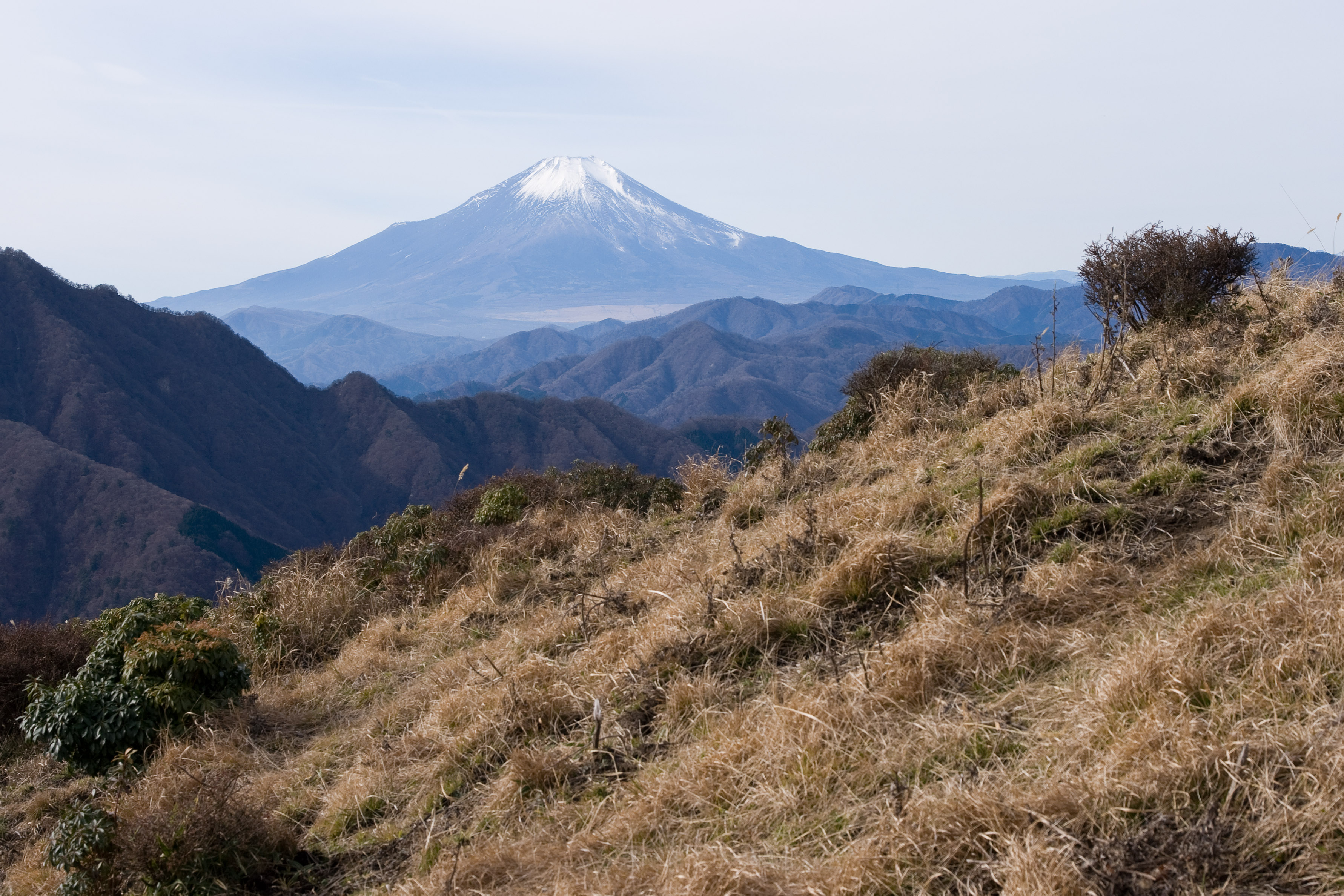 Mount Fuji as seen from Mount Himetsugi in Tanzawa Mountains, Japan.